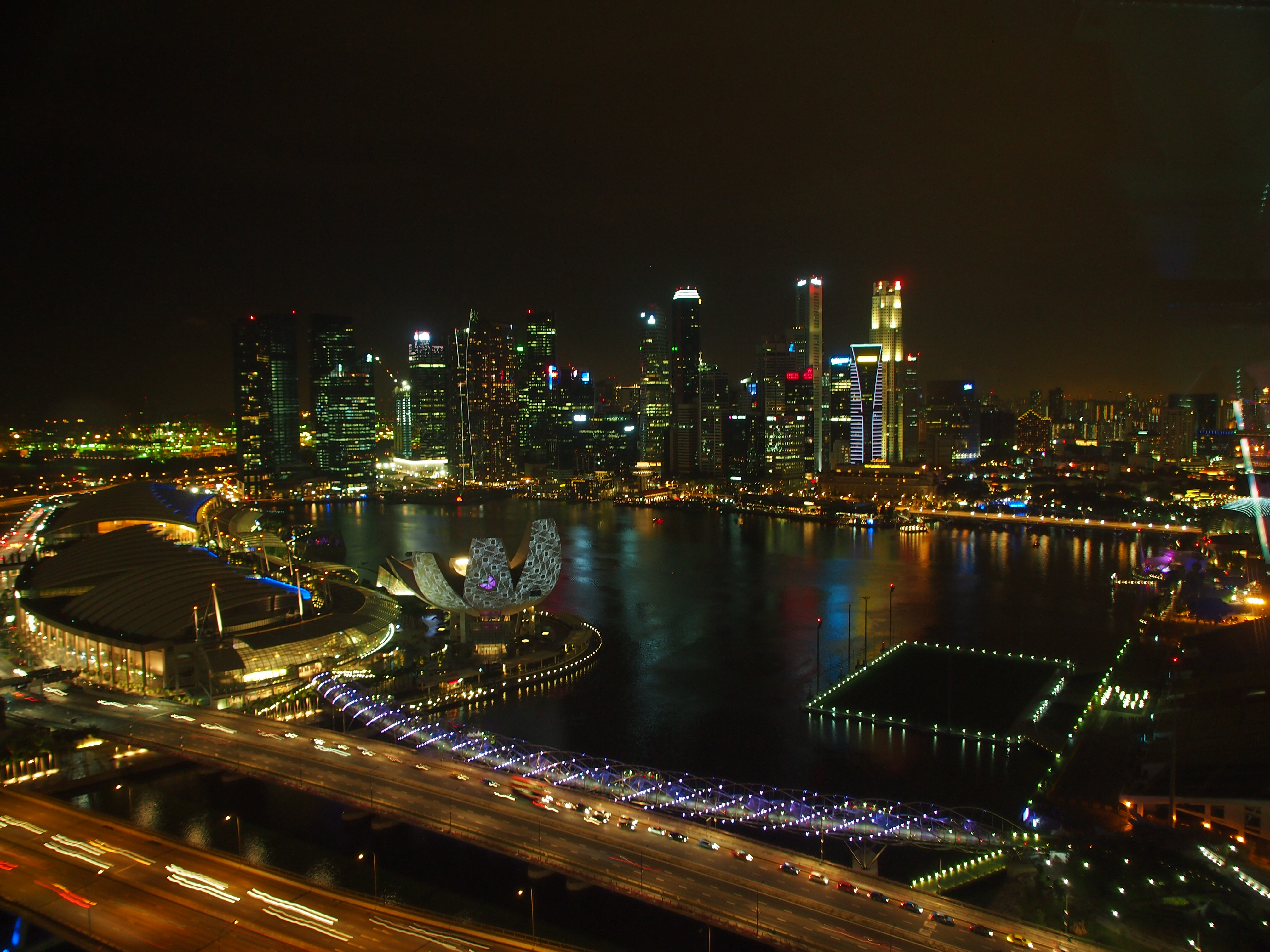 A view of Marina Bay in Singapore at night, seen from the Singapore Flyer.